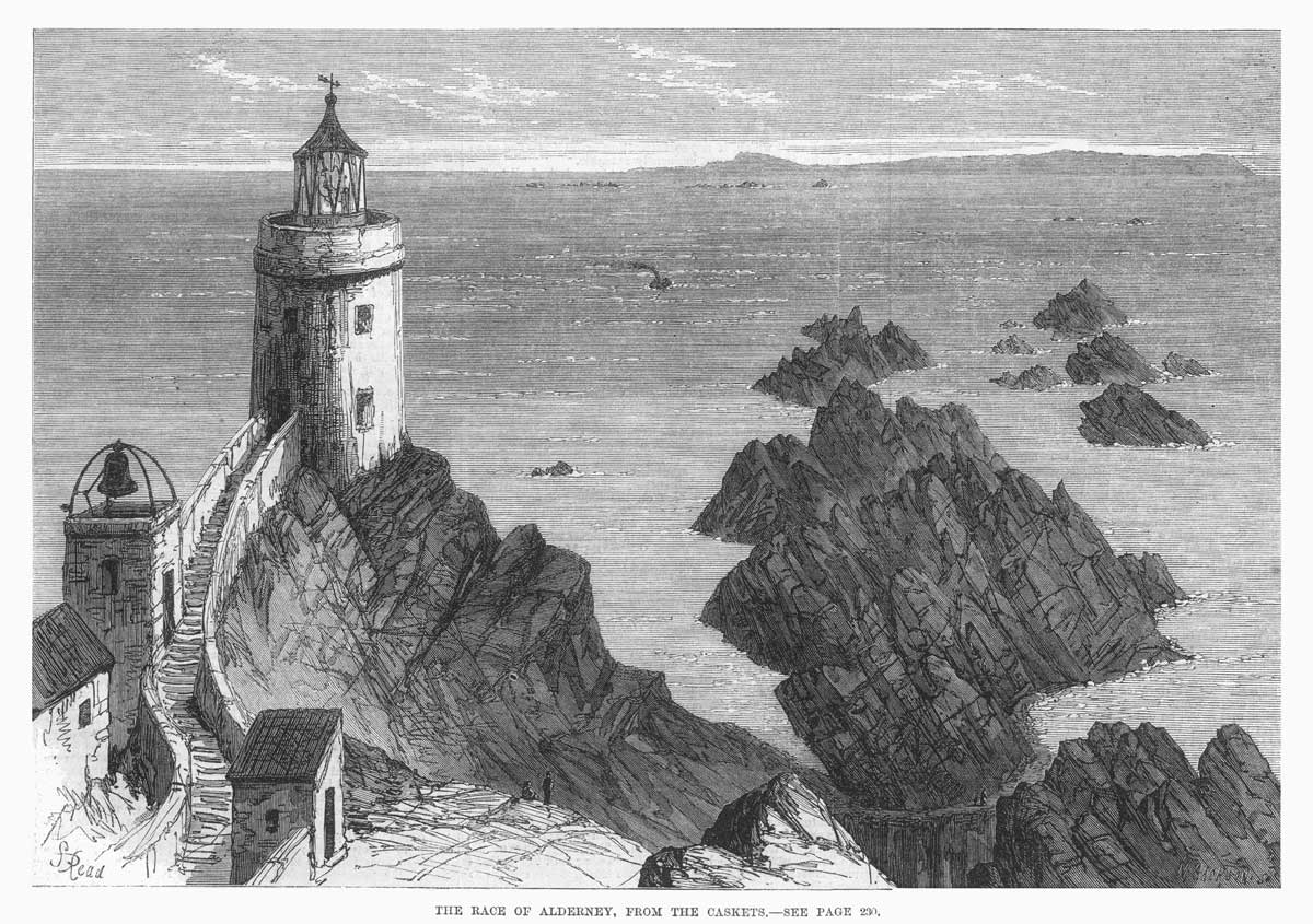 Les Casquets, looking east towards Alderney, Channel Islands, British Isles